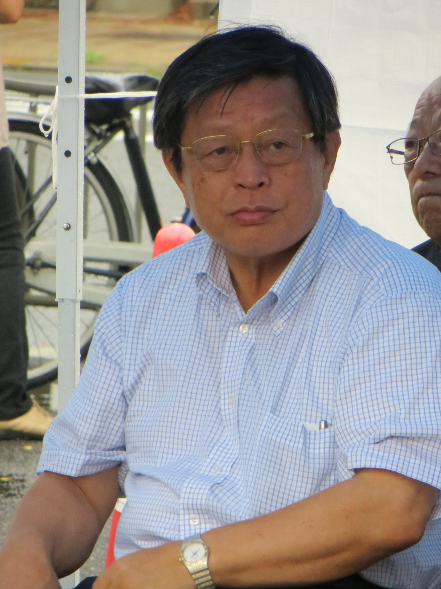 Osami Takeyama (Mayor of Sakai City).